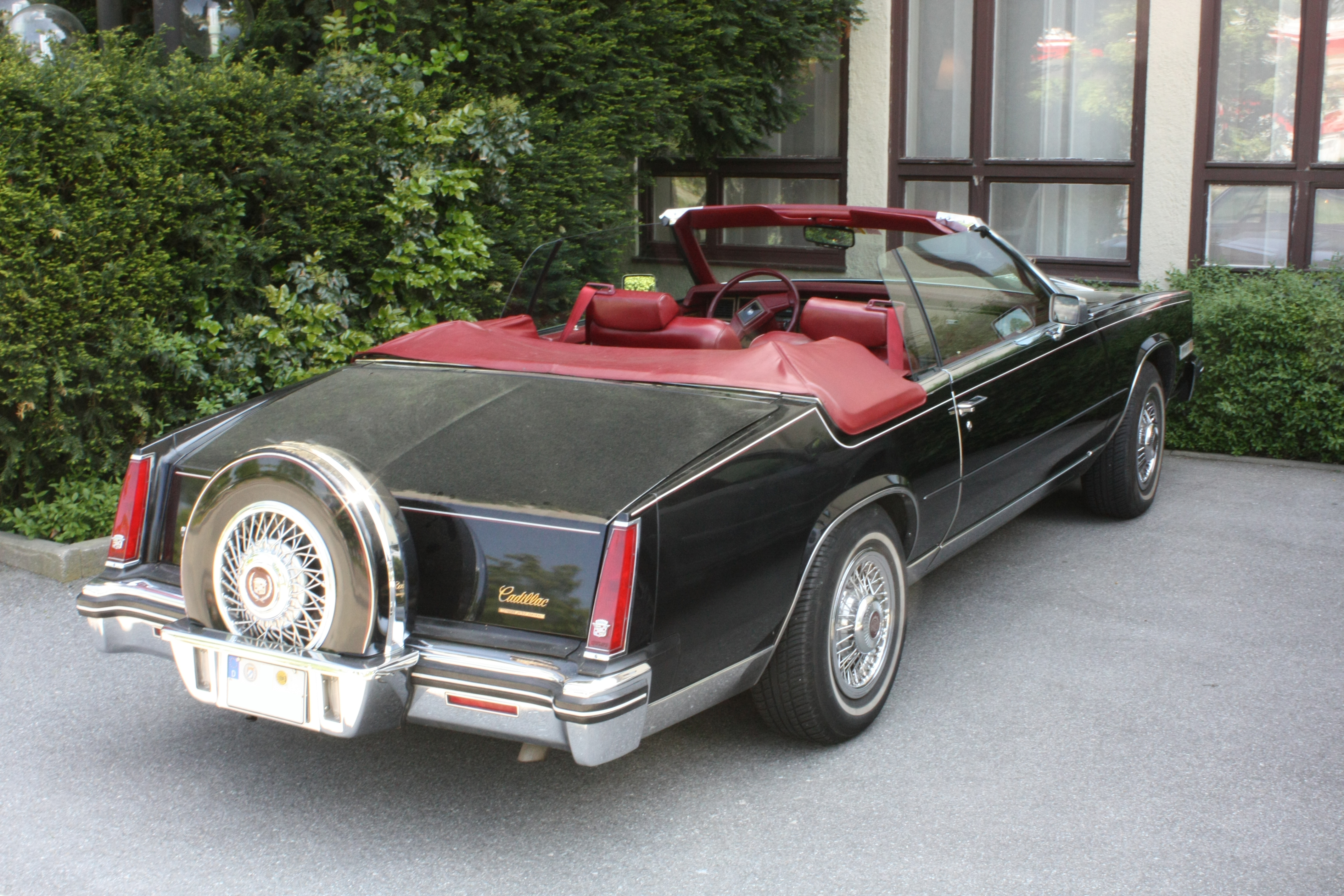 Cadillac Eldorado